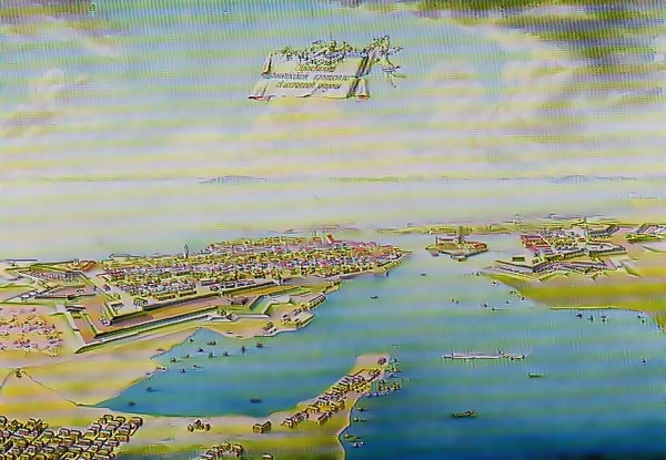 Vyborg in the late 18th century